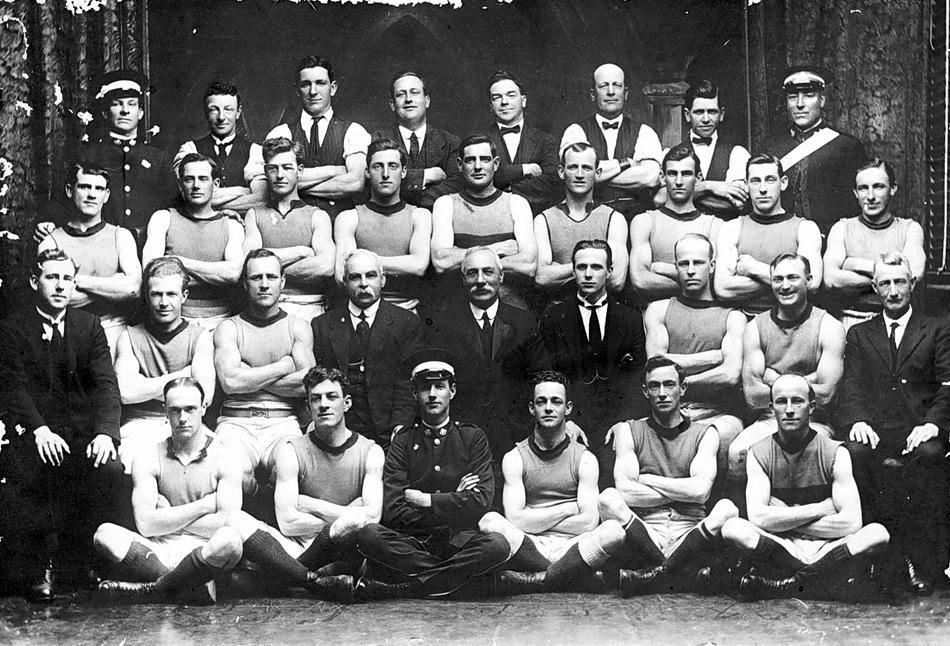 Photograph of the 1919 VFA premiership team, Footscray Football Club. The coach, William Isaac "Bill" Sewart (1881-1928) is sitting, in suit and tie, at the far left of the second row.